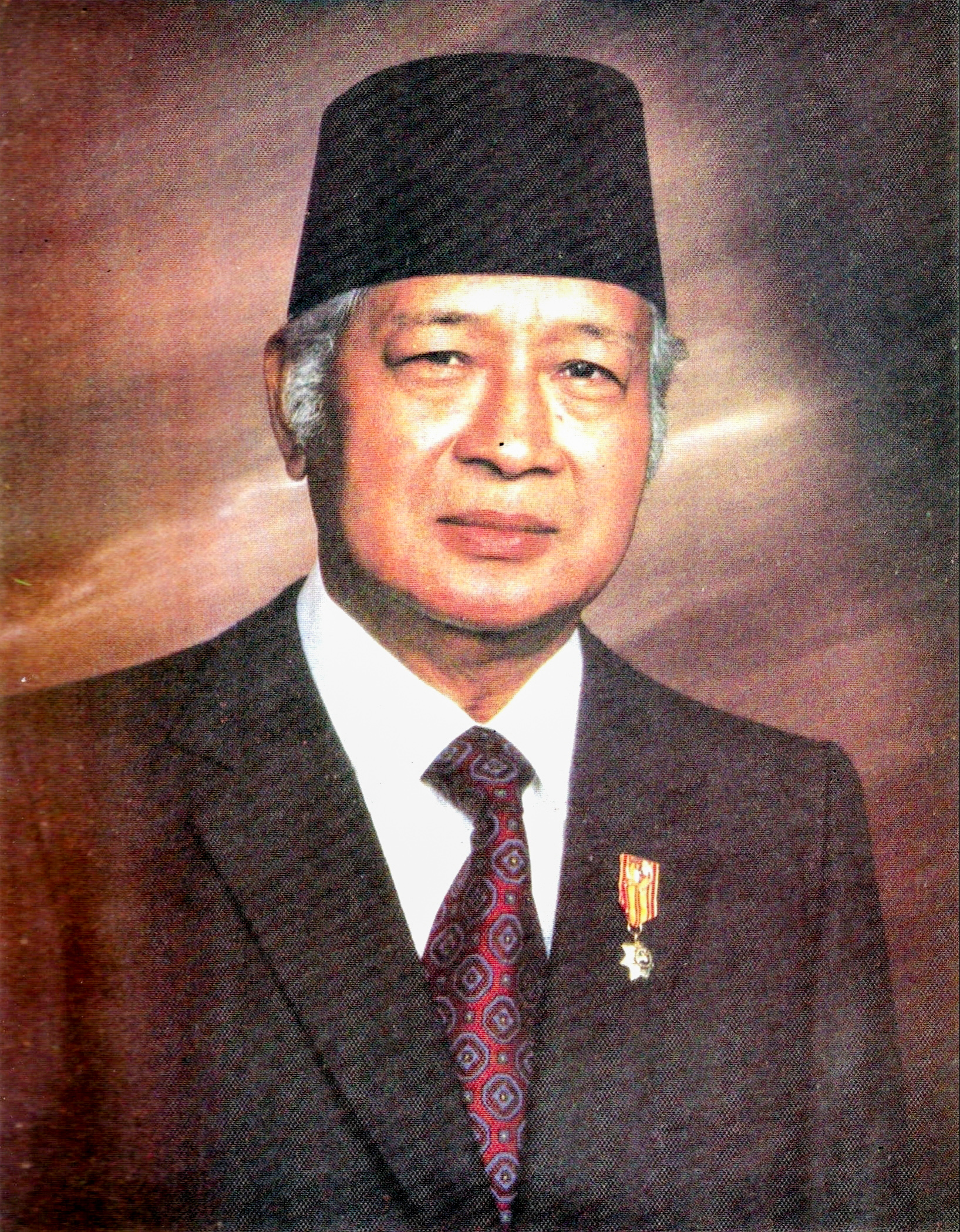 Soeharto as President of Indonesia, 1988